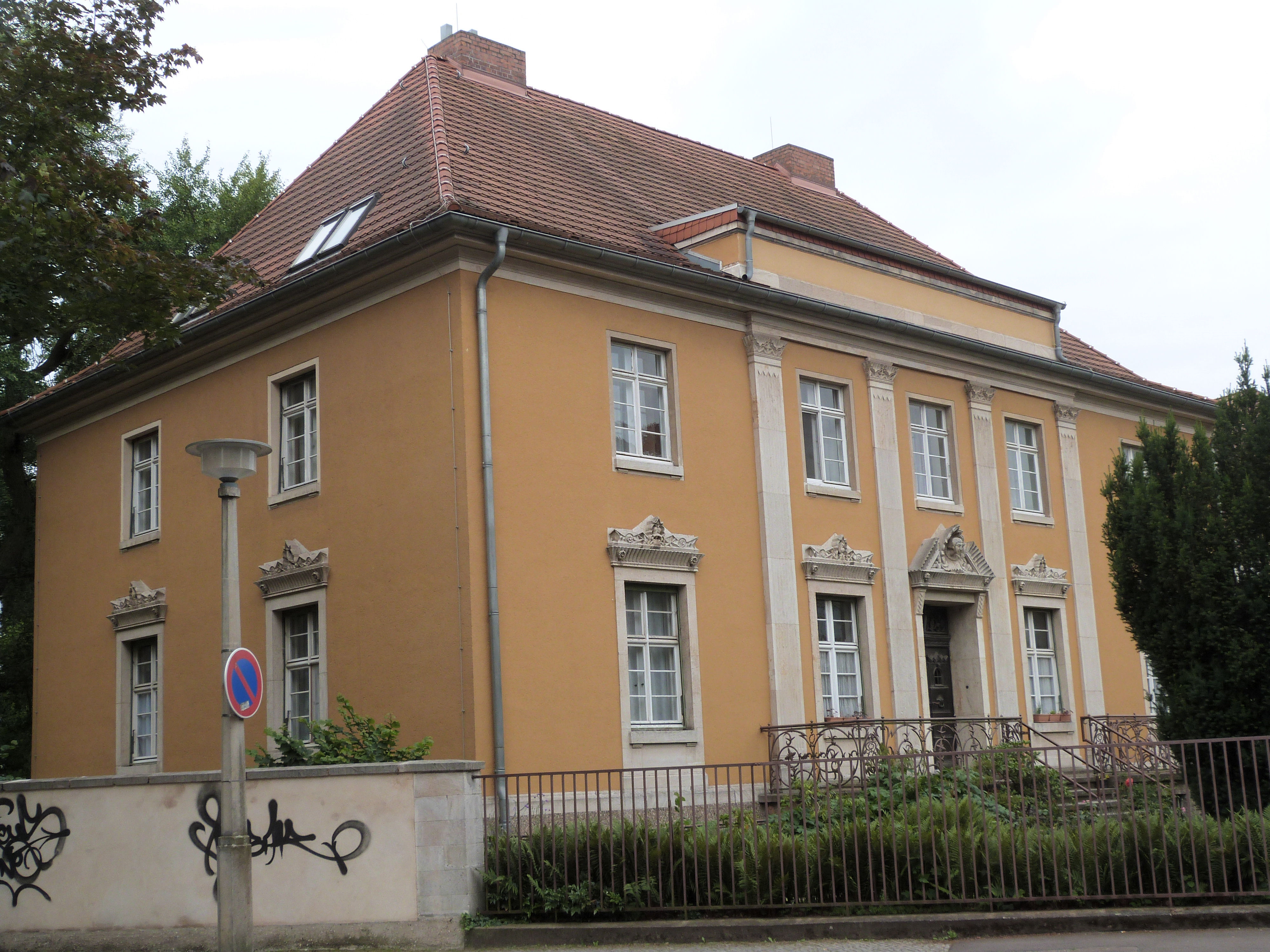 Villa Brandenstein, Am Kirchtor No. 11, Halle (Saale), architect: Hermann Frede, built in 1923/24